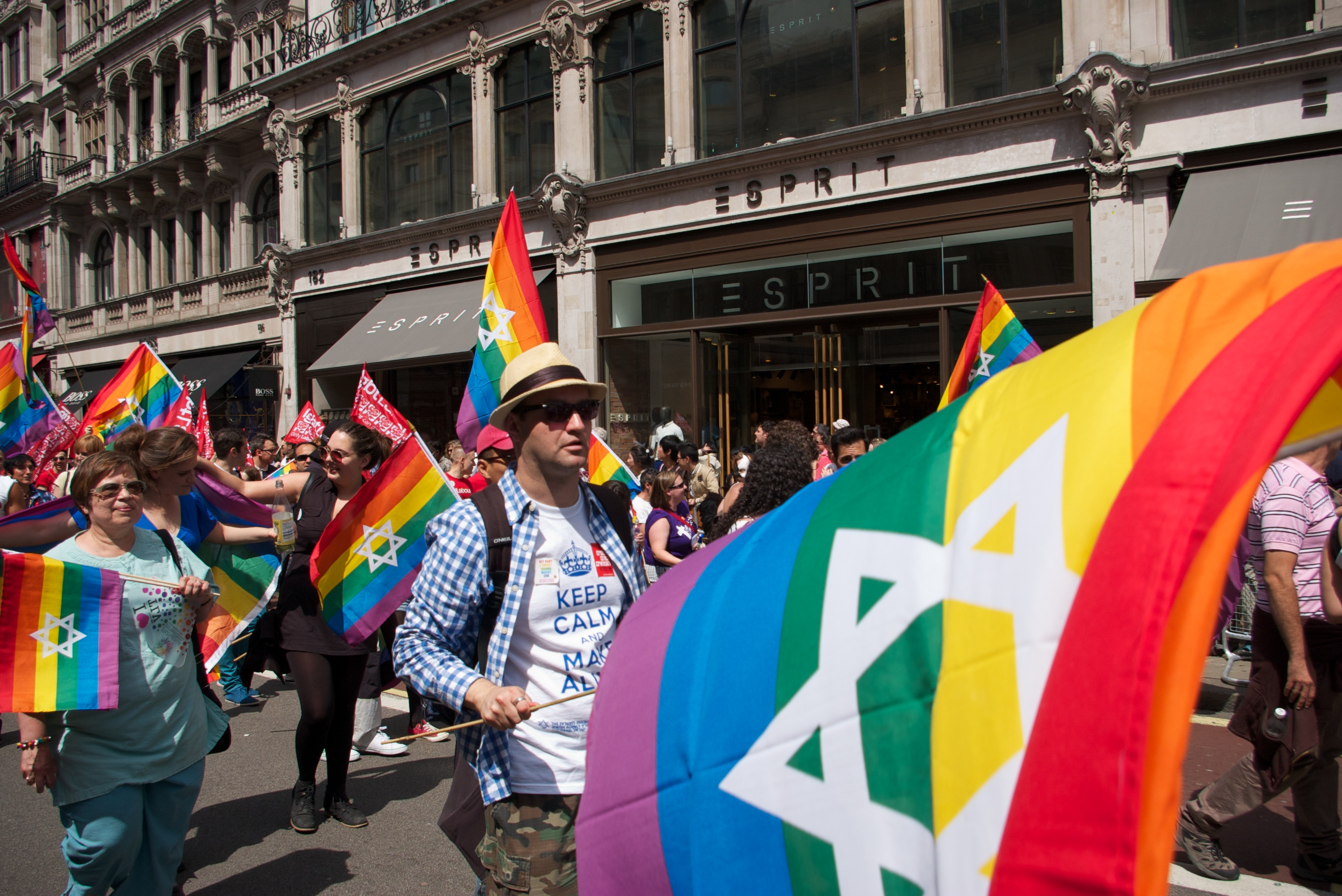 Marchers in the Pride in London 2013 parade photographed from Regent Street.